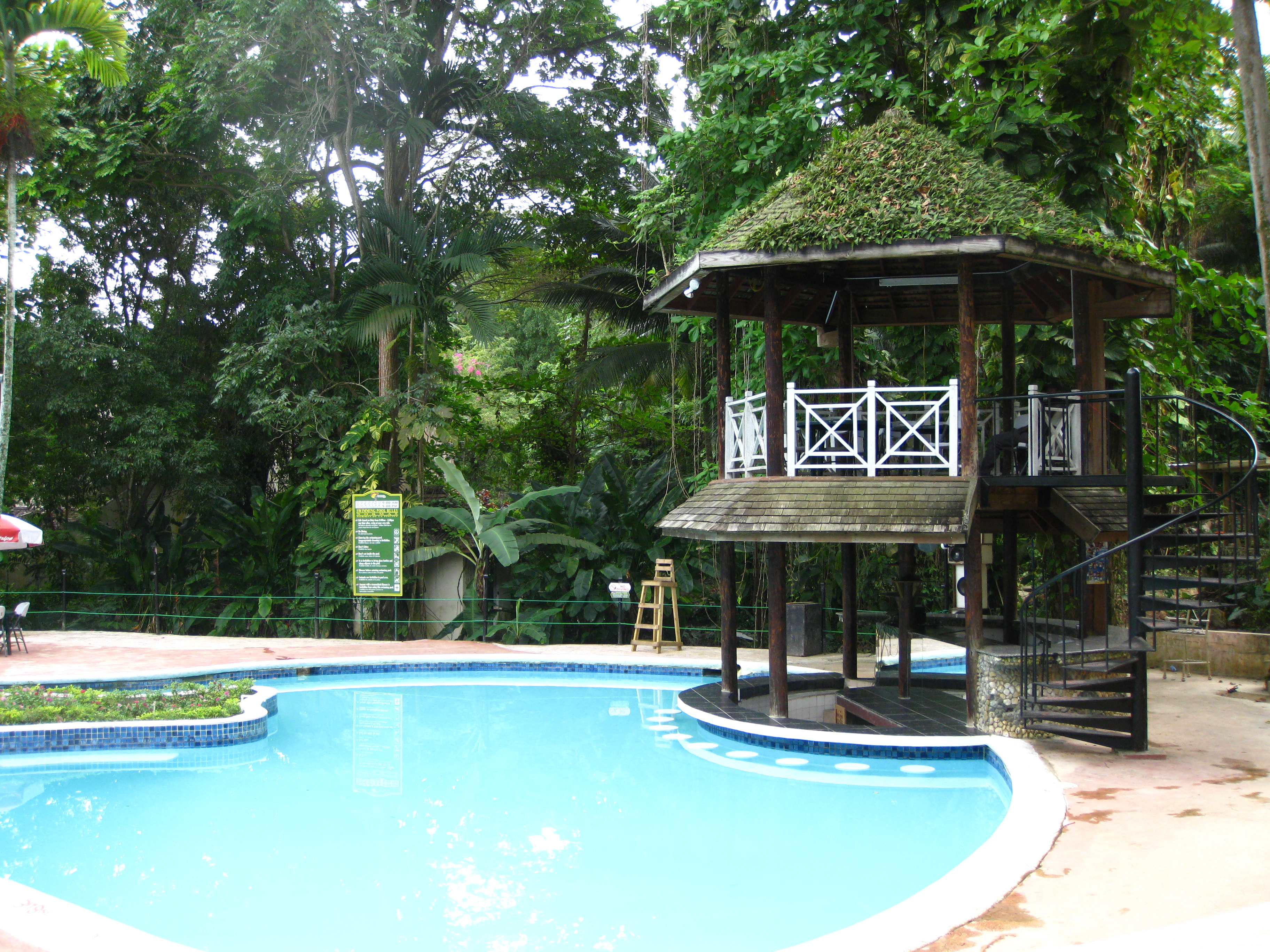 Swim-up bar / pool at Enchanted Gardens in Ocho Rios, Jamaica.